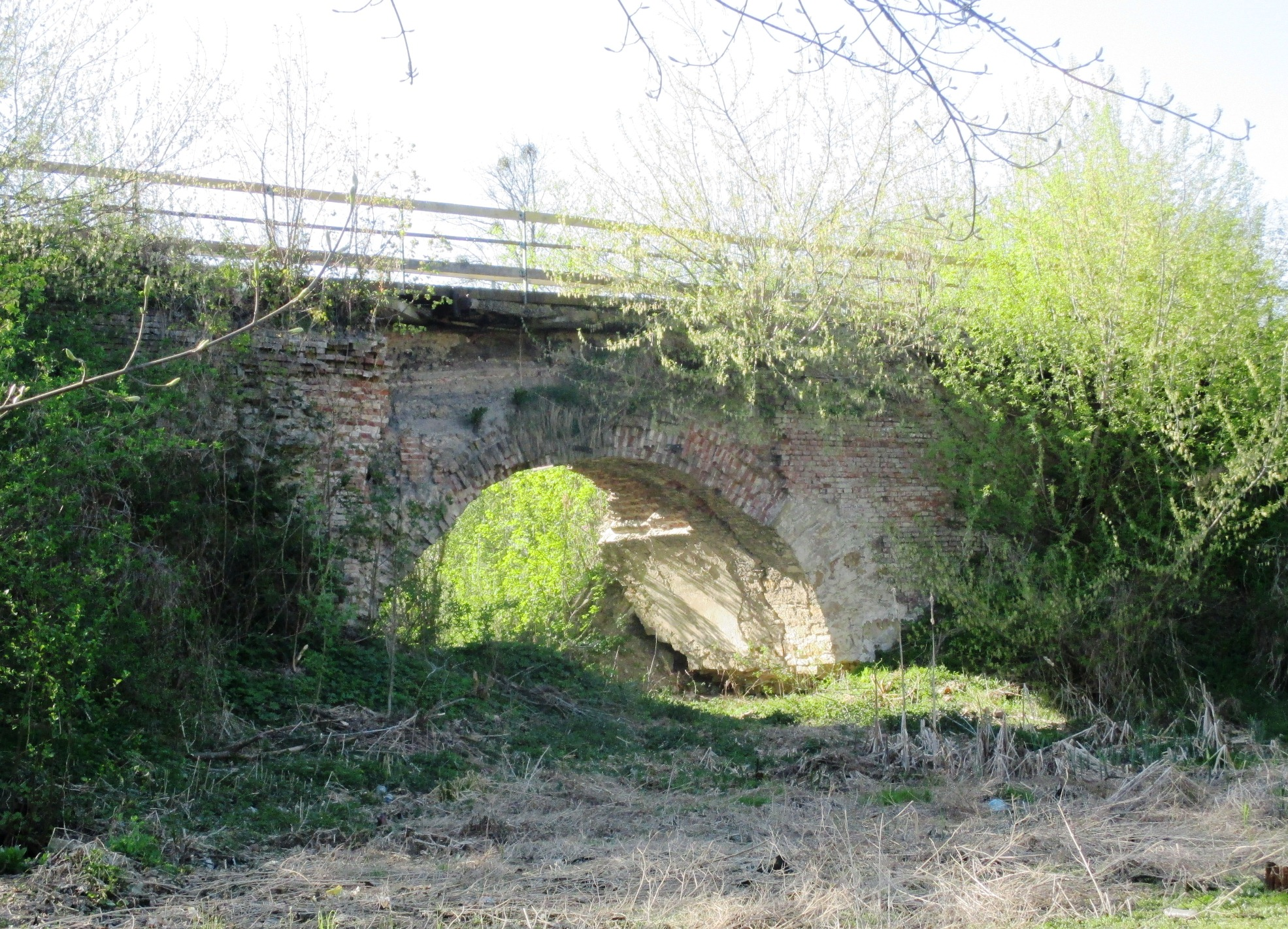 Old bridge entrance to the park